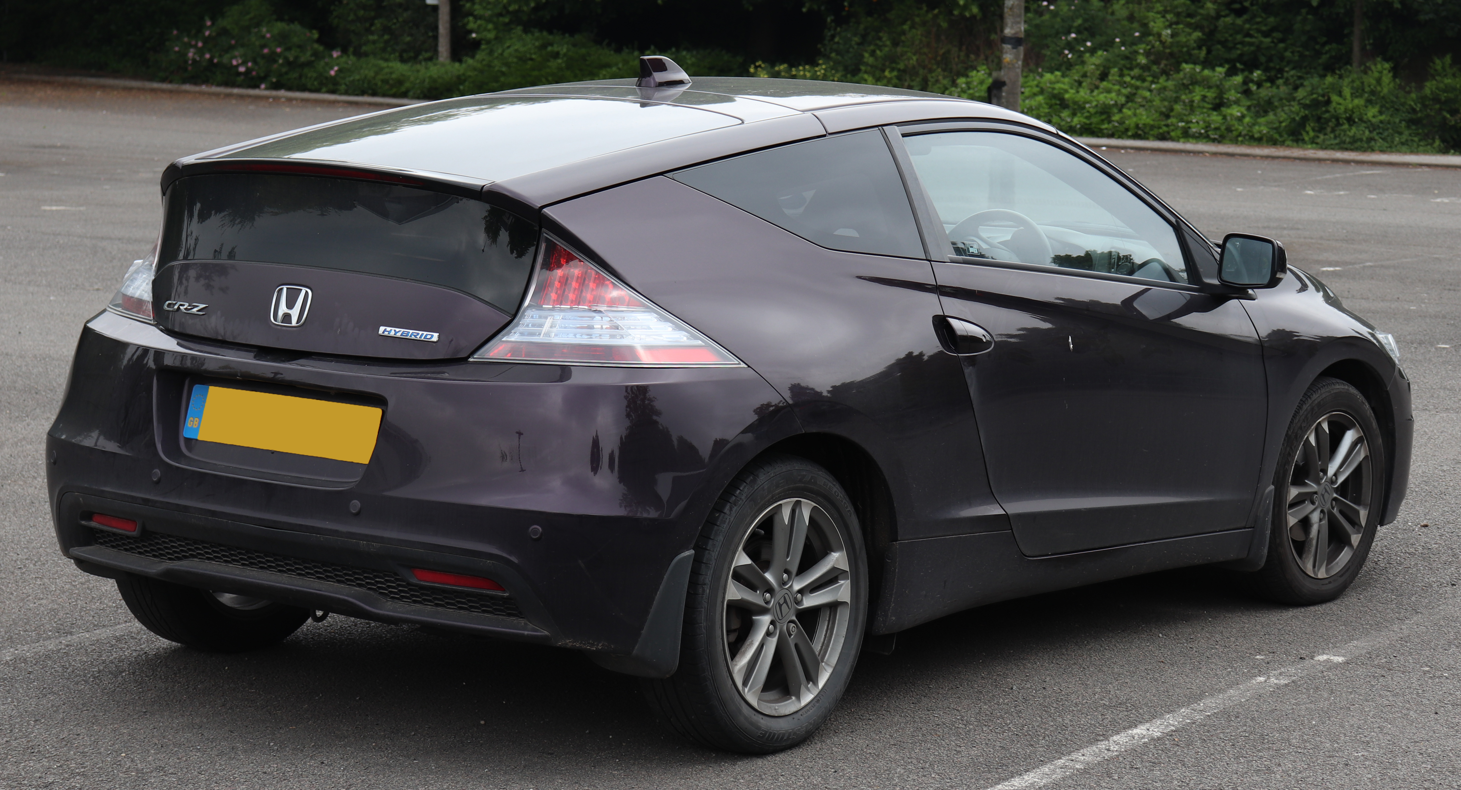 2014 Honda CR-Z Sport-T i-VTEC 1.5 Rear Taken in Leamington Spa